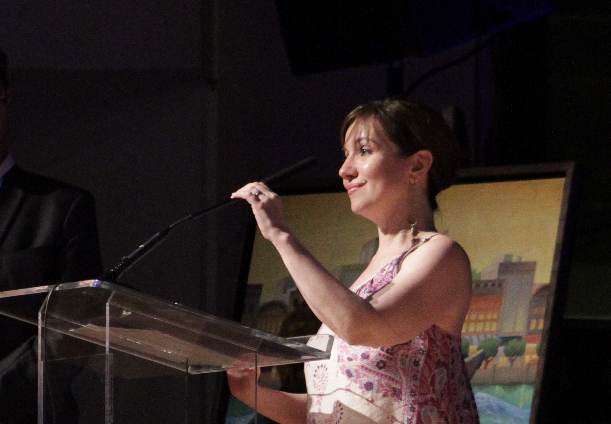 Domenica Cameron-Scorsese at the Big River Film Festival 2016 in Savannah, Georgia.